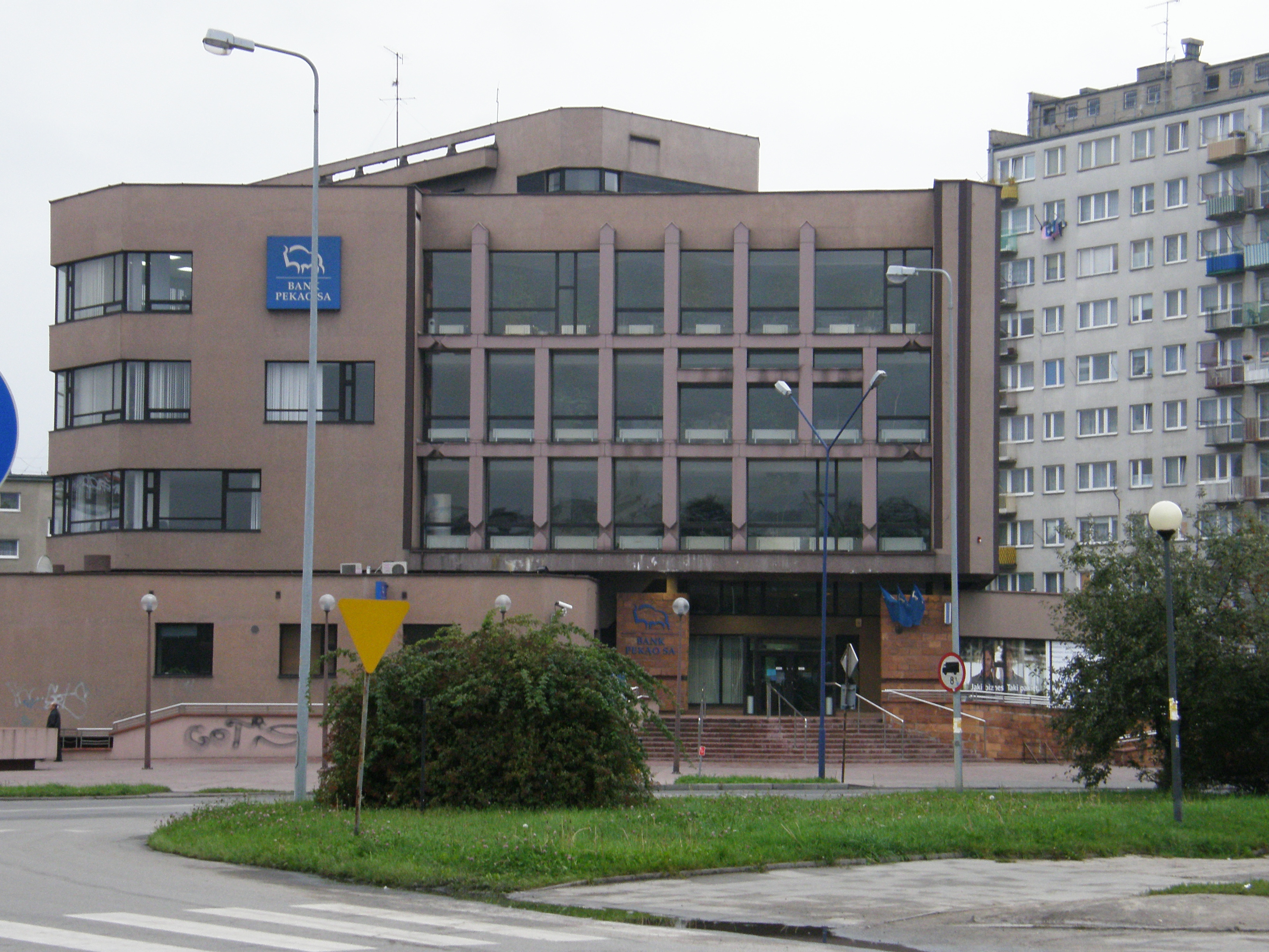 Bank PEKAO SA in Radomsko